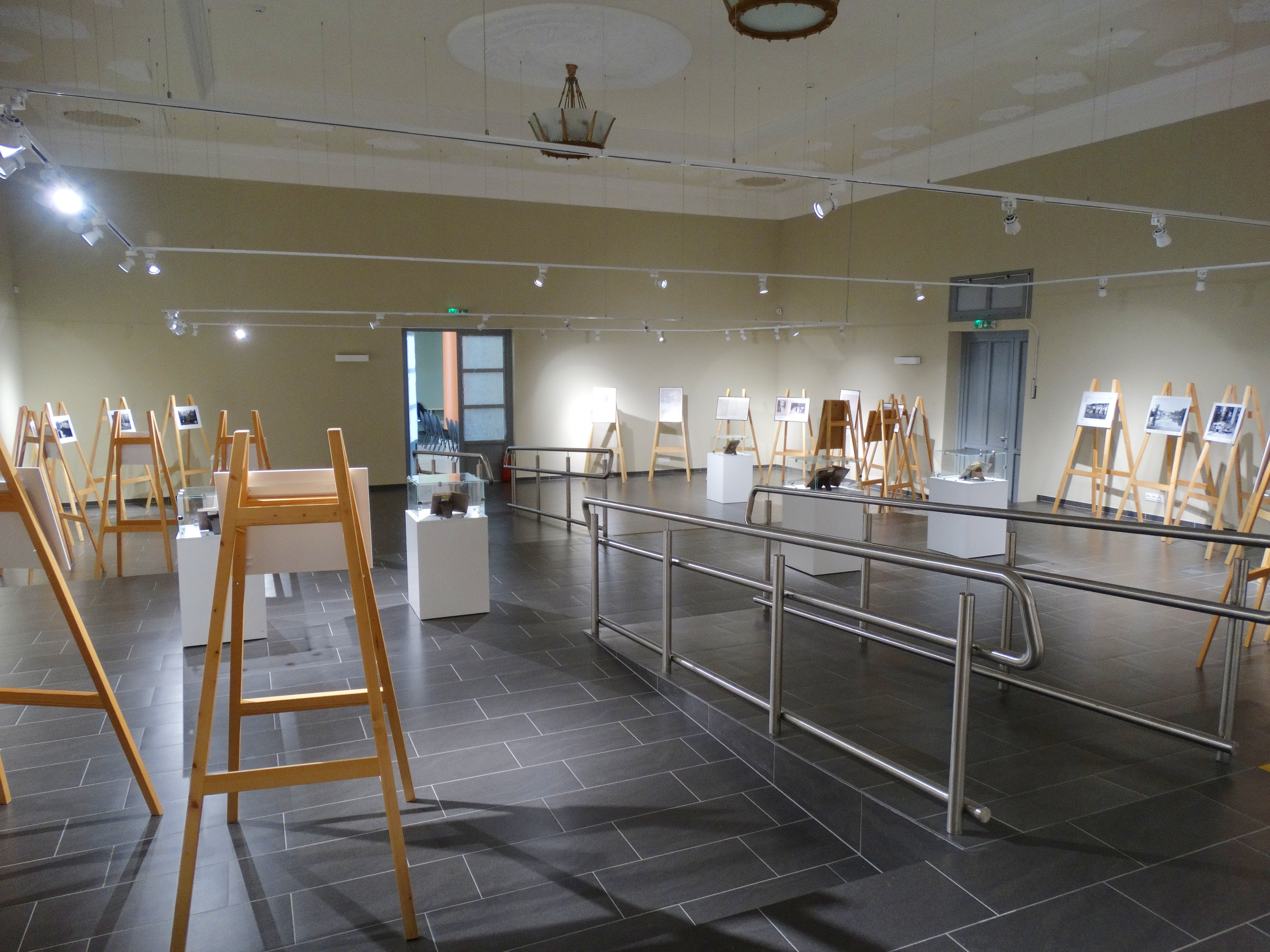 Ukmergė museum (former cinema Draugystė), Lithuania